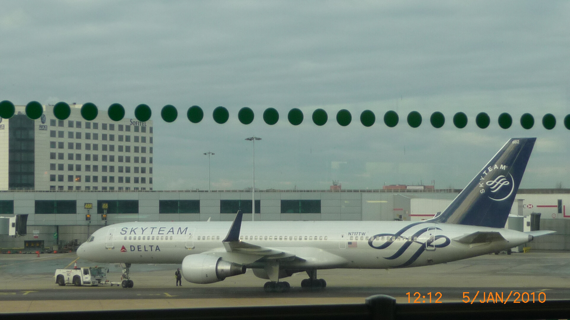 Delta Airlines Boeing 757-231 (ex-TWA, with retro-fitted winglets, N717TW, MSN: 28485 (854), fin 6812) at London Gatwick Airport, North Terminal.